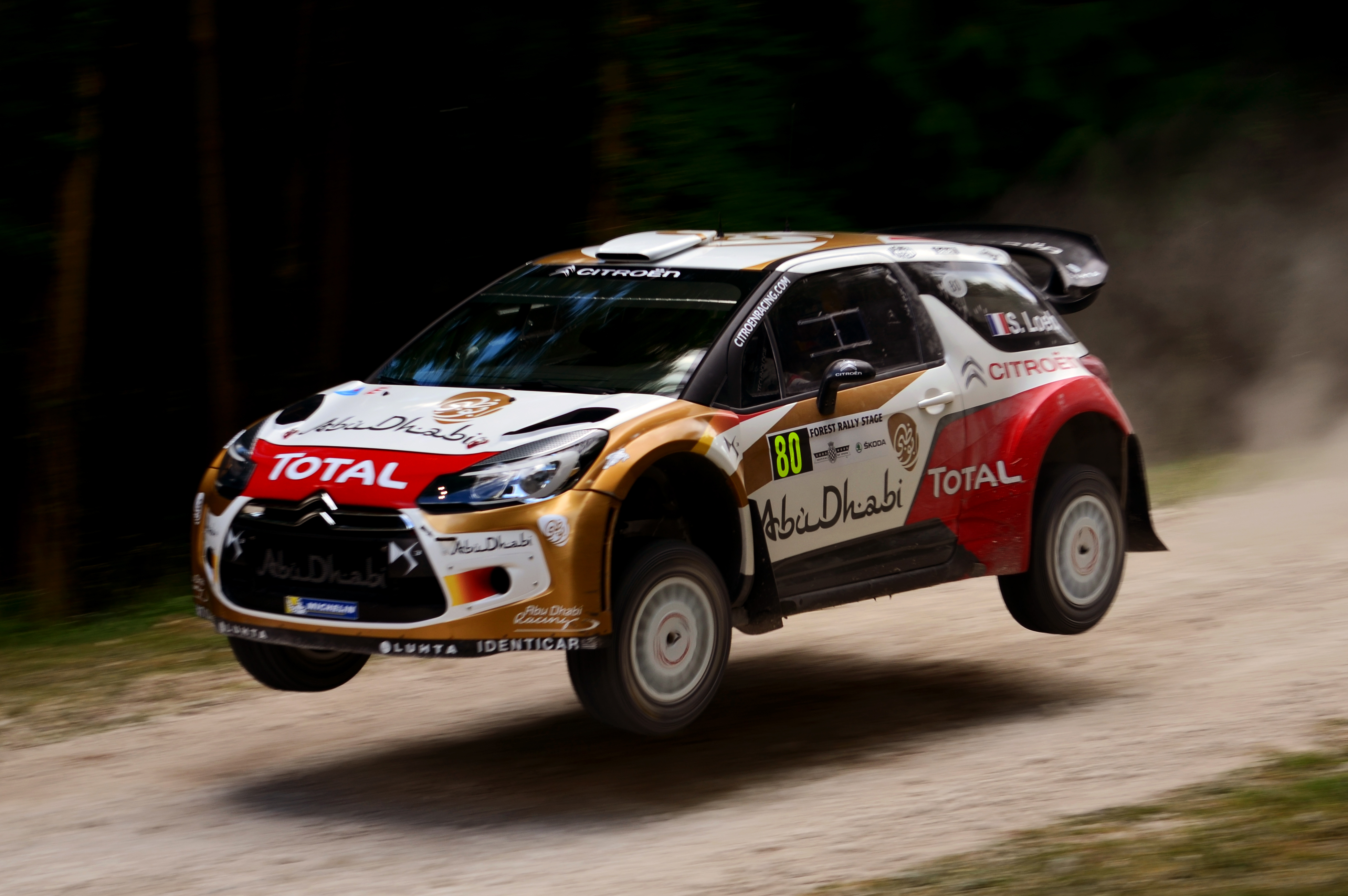 Sébastien Loeb during Forest Stage at Goodwood 2014